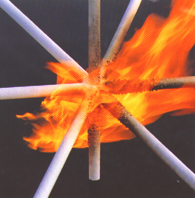 Thin-film instumescent spray fireproofing (Unitherm) applied to a pipes, being exposed to fire.